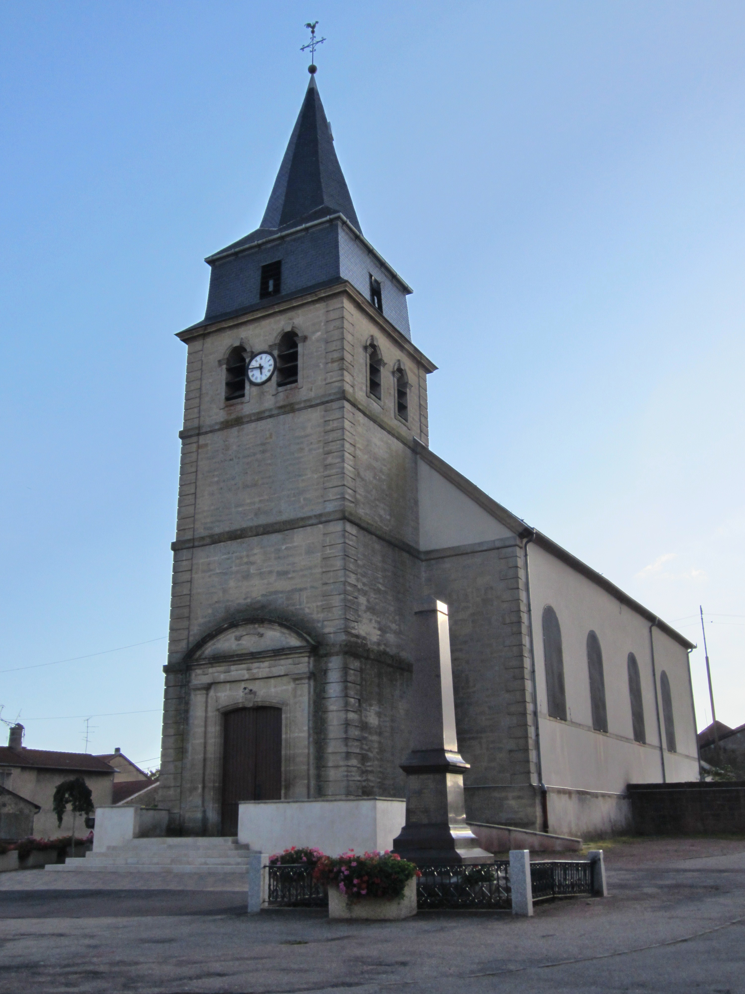 Description eglise Norroy Sec eglise Norroy Sec